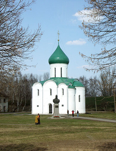 Saviour Cathedral in Pereslavl-Zalessky (1152-57). Photo was taken by Alexander Shipilin and uploaded as GDFL with his permission.